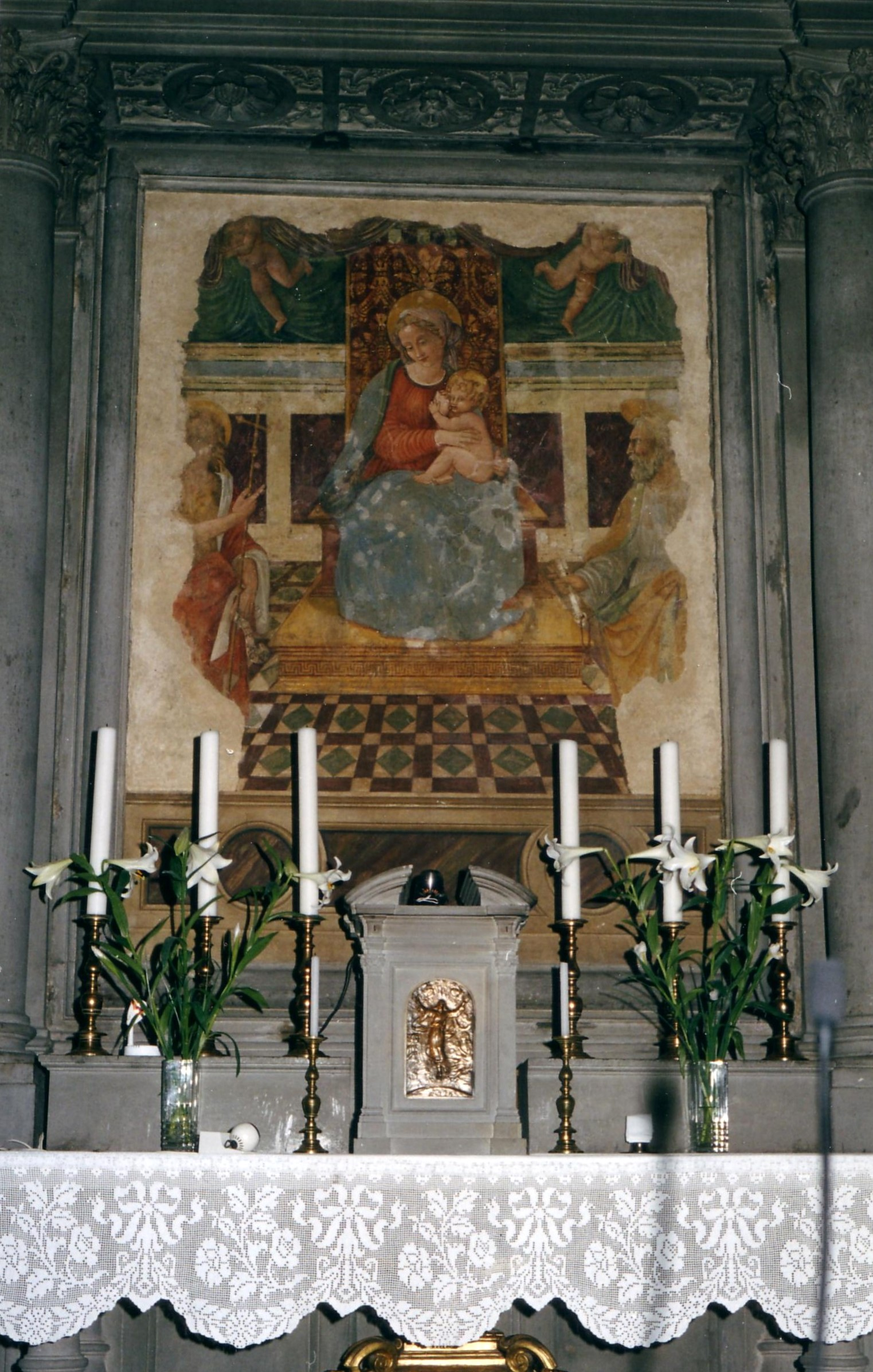 The main altar in Santa Maria al Giglio Church in Montevarchi